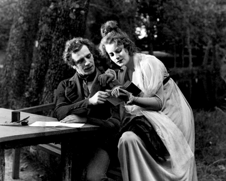 Greta Garbo in Gösta Berlings Saga 1924, her first big role, scene here with Lars Hanson.